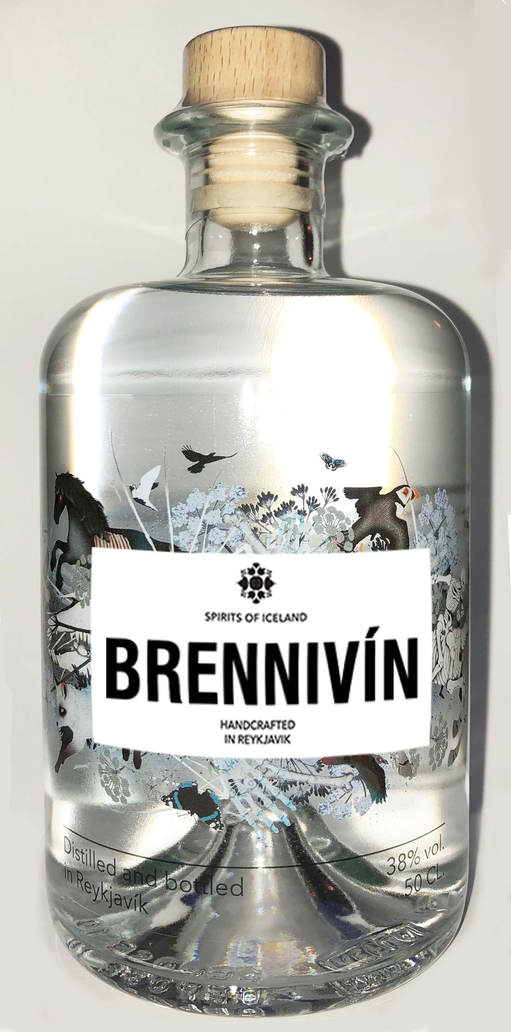 A bottle of Icelandic Brennivin